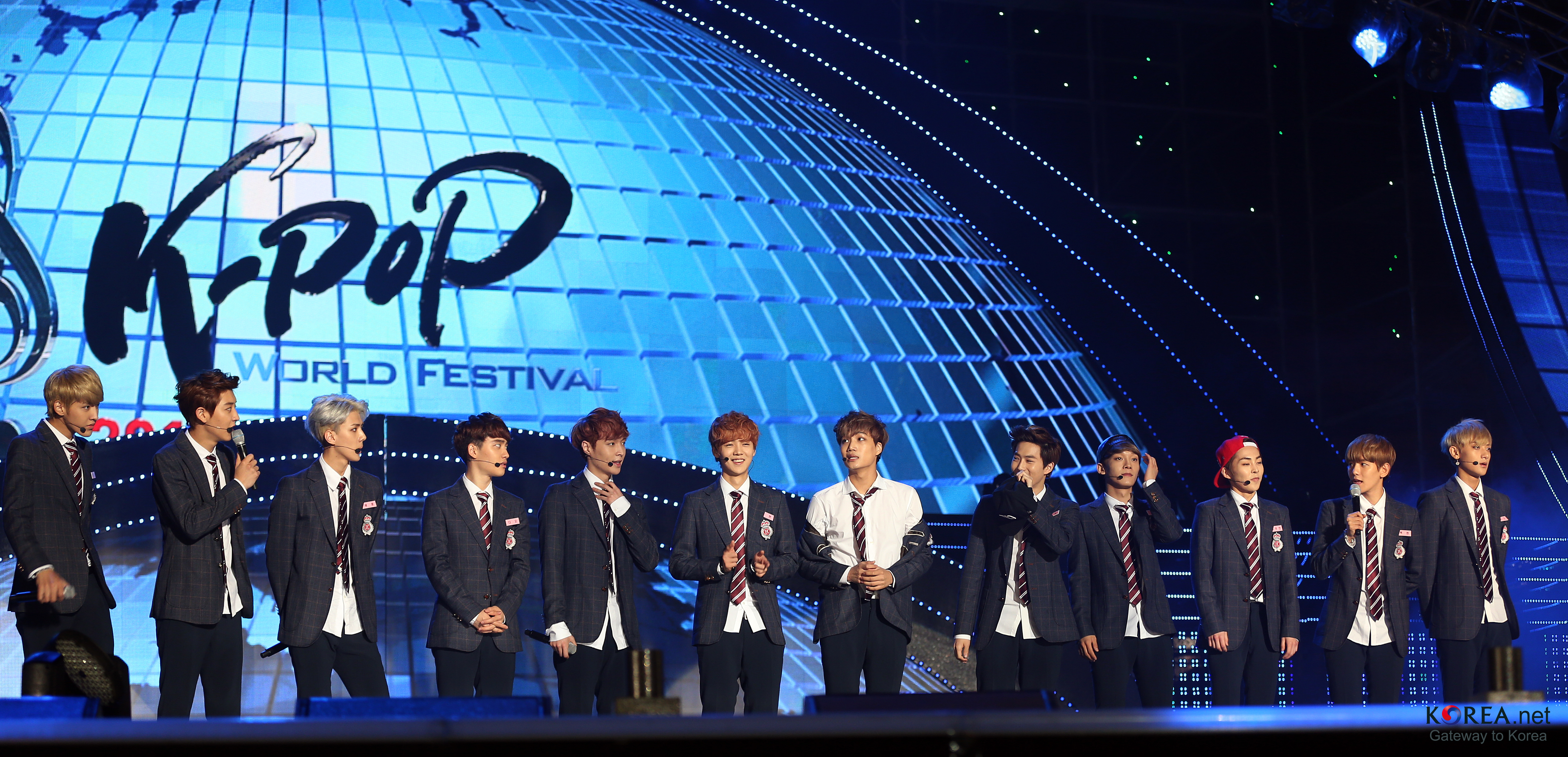 2013 K-POP World Festival in Changwon October 20, 2013 Changwon-si, Gyengsangnam-do Related Articles Cheong Wa Dae K-Pop World Festival unites global fans -English K-Pop World Festival unites global fans -中文 “2013 K-POP世界庆典” 用K-POP连结全世界 -Vietnamese Cả thế giới hội tụ tại “K-pop World Festival 2013” -日本語 「Kポップワールド・フェスティバル2013」、Kポップで世界が一つに -Deutsch „K-Pop World Festival” bringt internationale Fans zusammen -Francais Un festival mondial de la K-Pop 2013 de haute volée -Russian K-Pop World Festival объединяет фанатов со всего мира -Arabic المهرجان العالمي للبوب الكوري يوحد الجماهي Ministry of Culture, Sports and Tourism Korean Culture and Information Service ( Jeon Han 2013 제3회 K-POP 월드페스티벌 2013-10-20 경상남도, 창원시 문화체육관광부 해외문화홍보원 코리아넷 전한